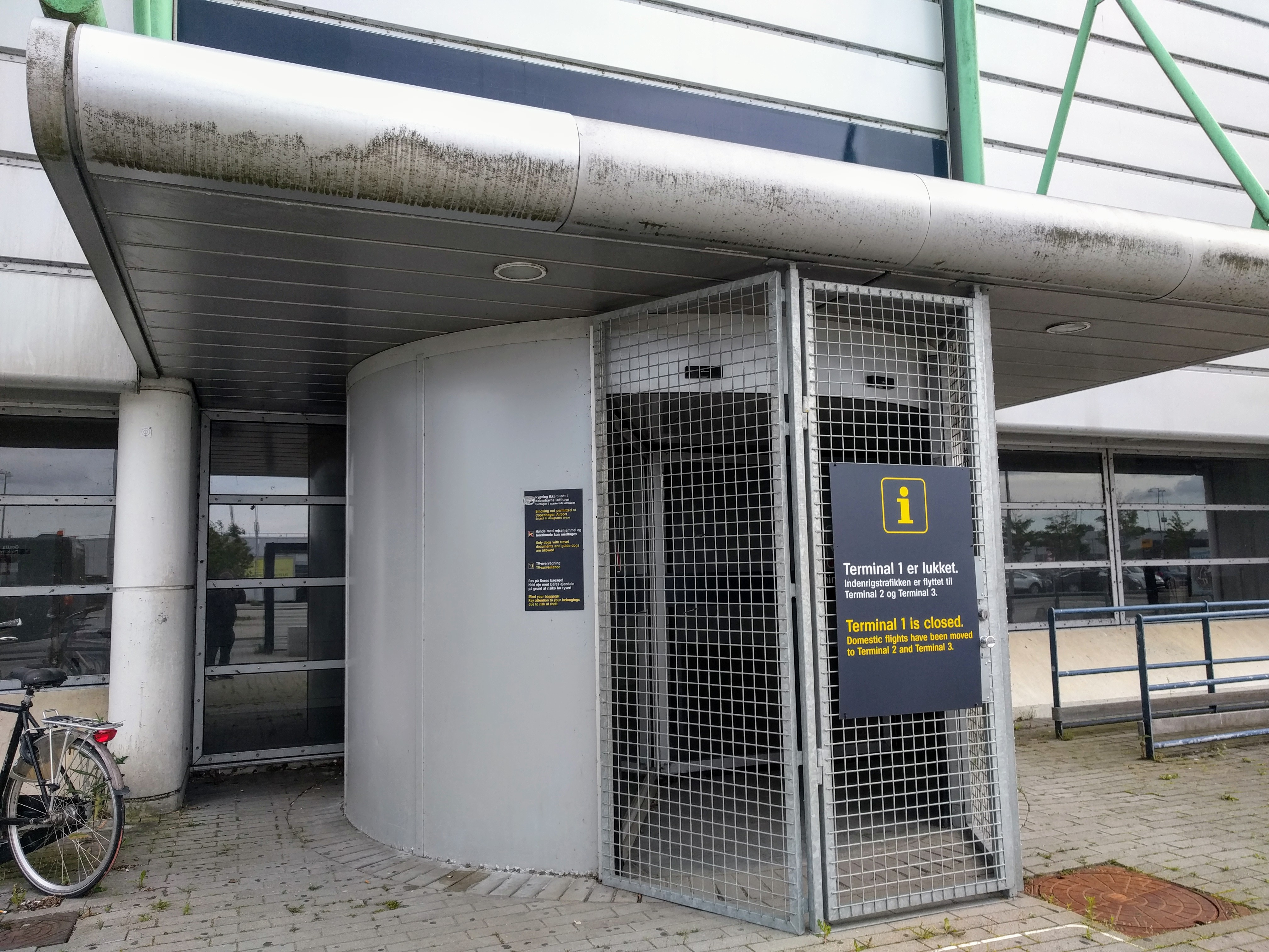 One of the former access gates to Terminal 1 of CPH Airport, visibly closed down.